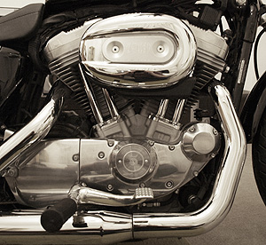 2006 Sportster 883 Evolution engine